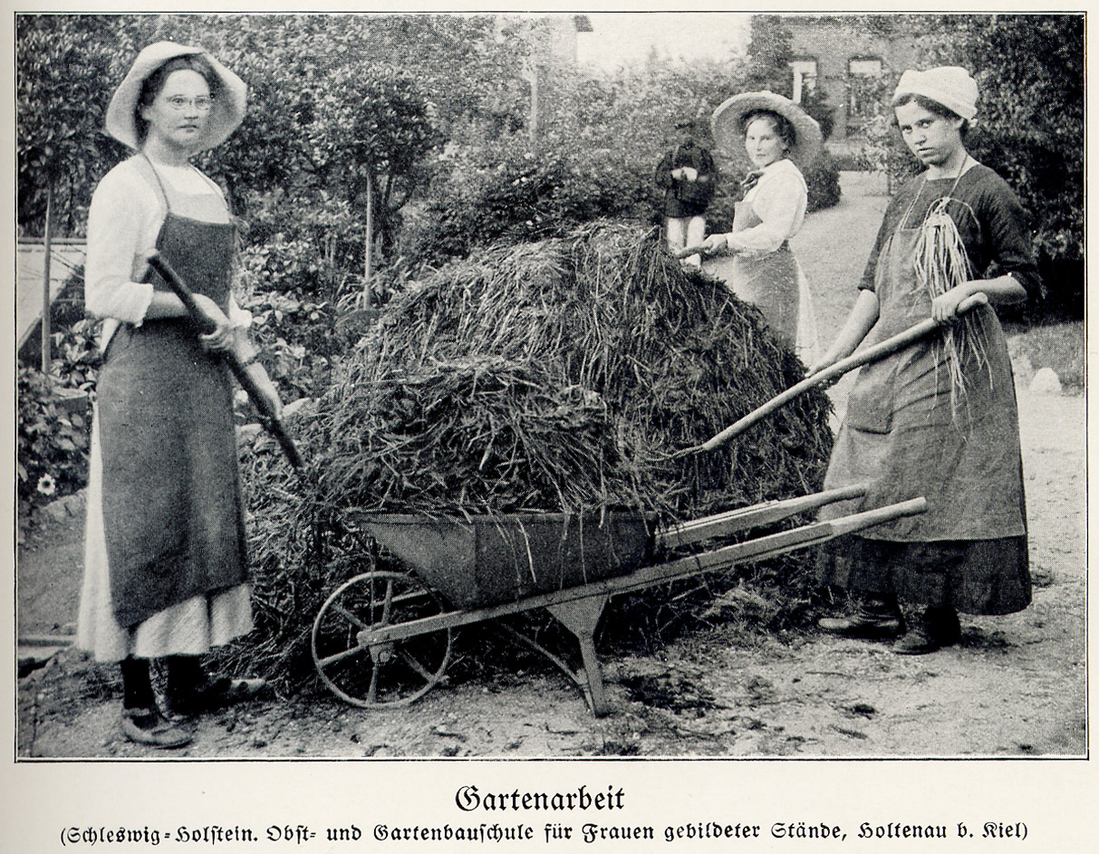 Women of "higher ranks" handle a haystack in a garden school in north Germany. Photograph by an unknown author, taken from a book about women and work from 1913.